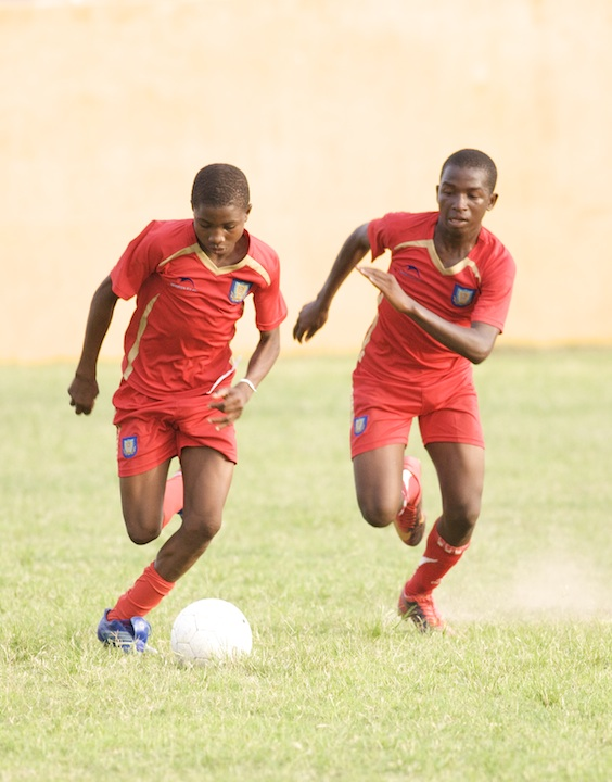 Kwara Footbal Academy students at play